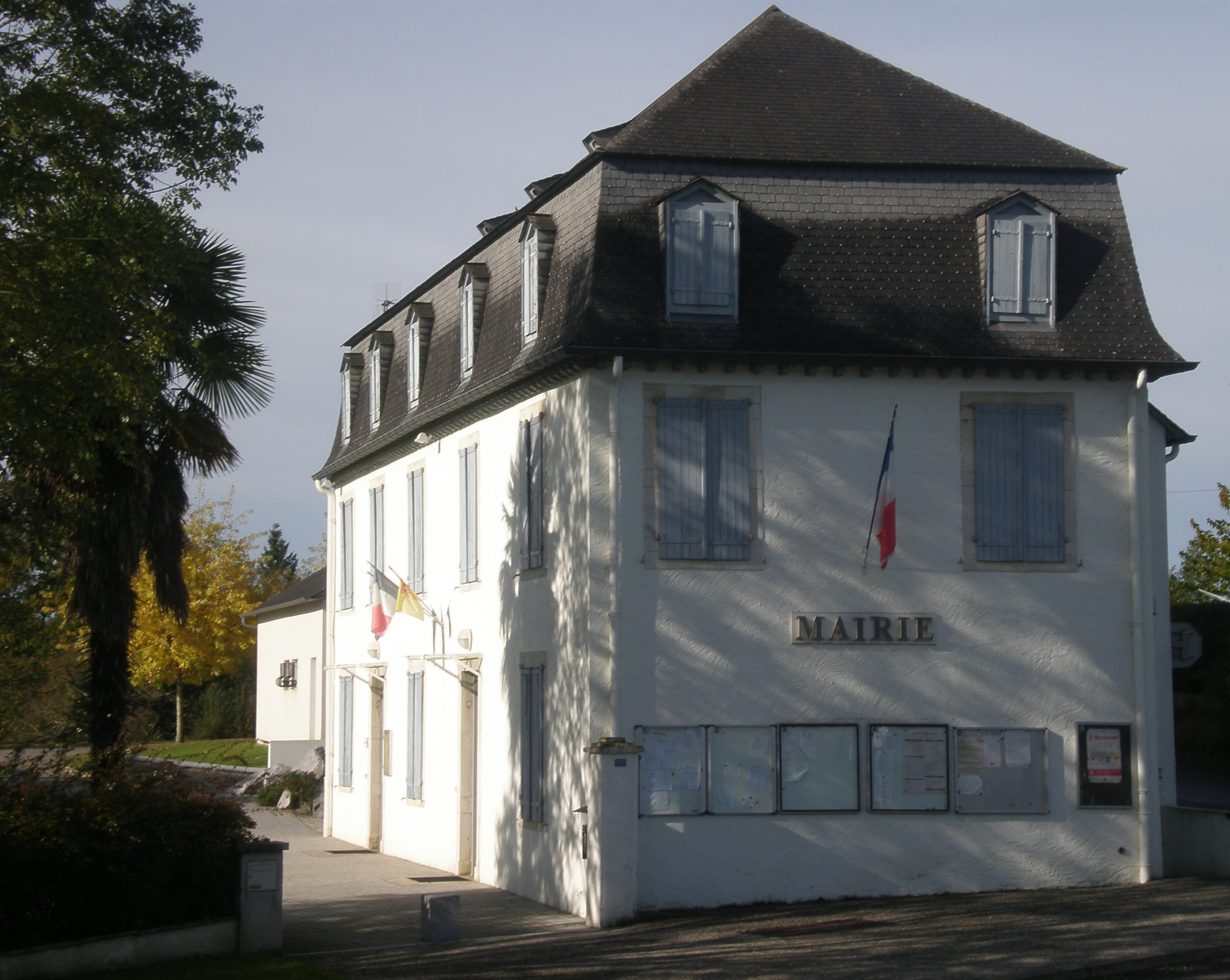 Mairie d'Aubertin